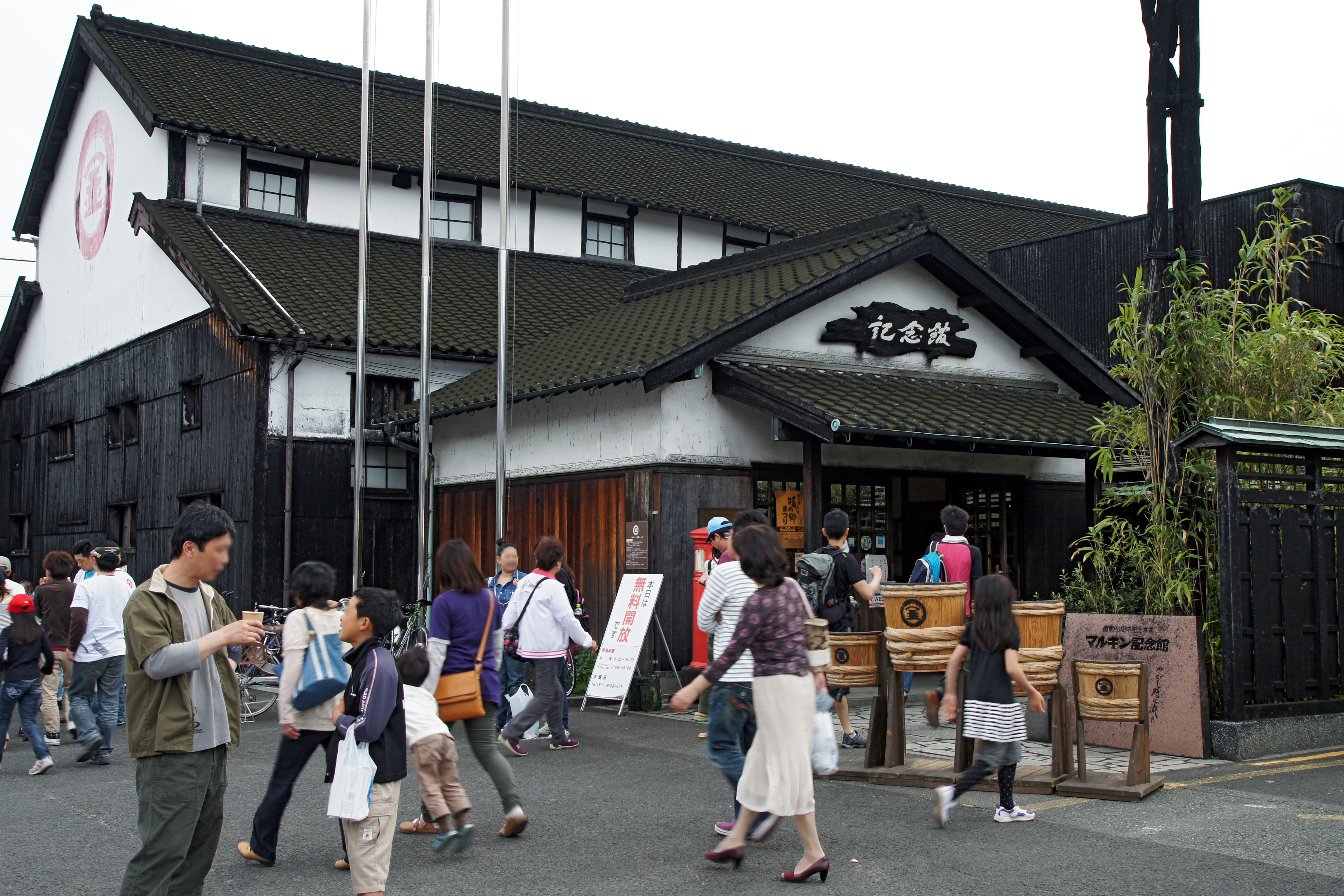 Hishio-no-sato of Shodo Island in Shodoshima, Kagawa prefecture, Japan